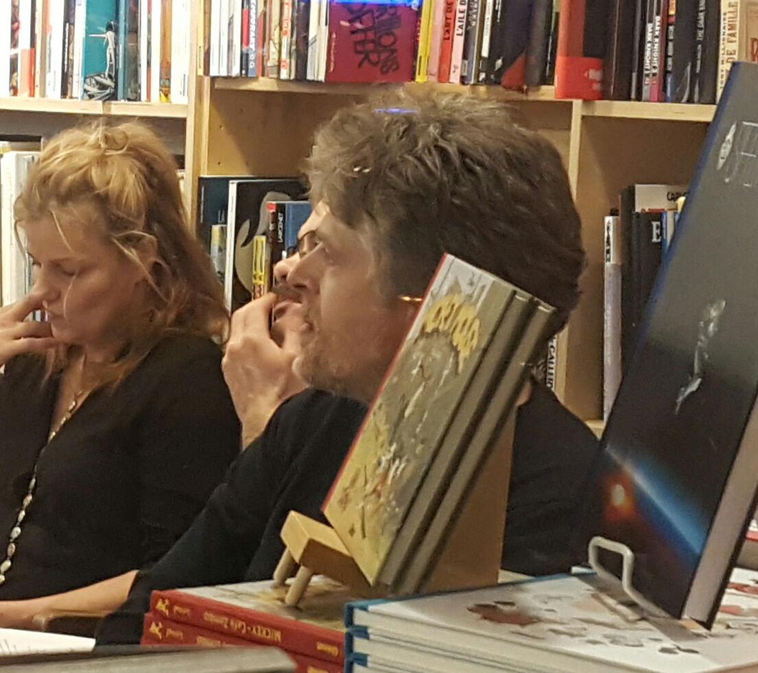 Réal Bossé photographed in Montreal, Quebec, Canada at the bookstore Le Port de tête.